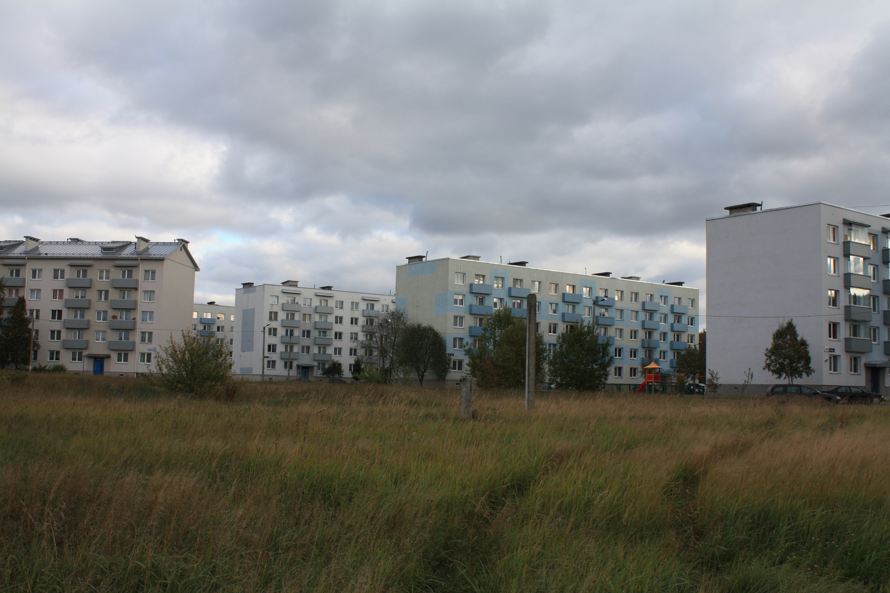 Astangu